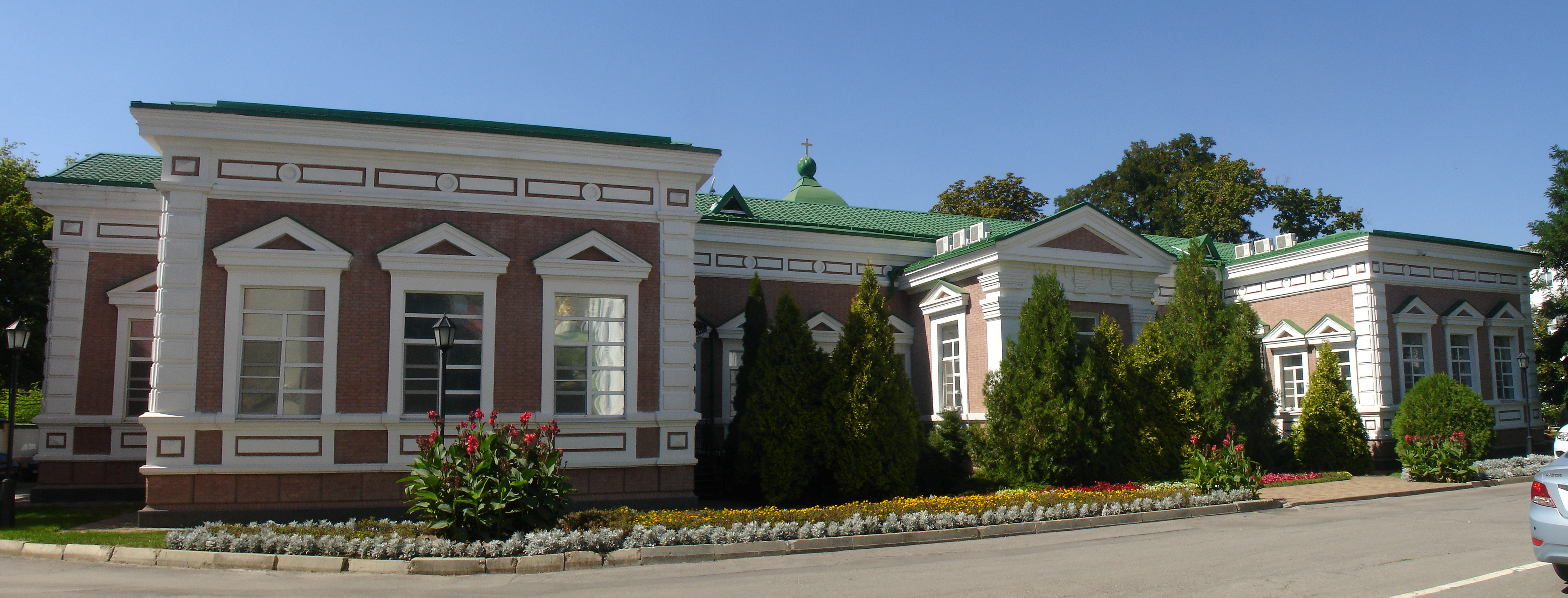 The main building of historical Mariinskaya Hospital (Nahichevan-on-Don) (eastern side, back). Now Administration of Rostov Scientific Research Oncologic Institute occupies this building at Bolnichniy lane 88, Rostov-on-Don, Russia.